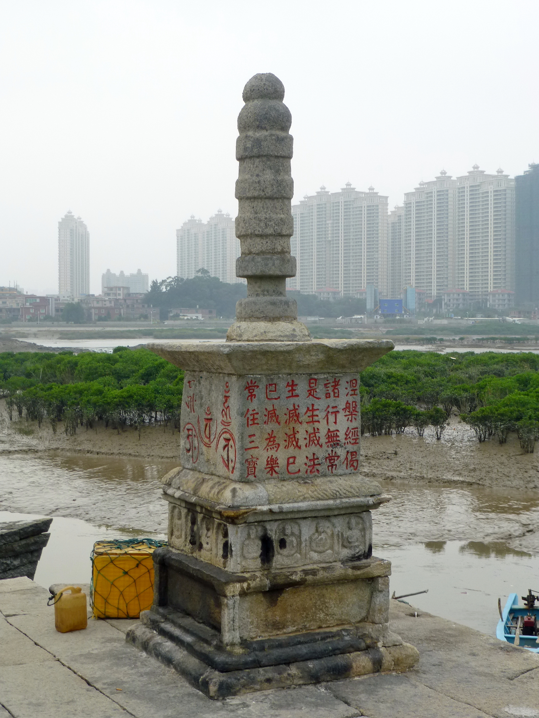 Luoyang Bridge and its surroundings, Hui'an County, Fujian.